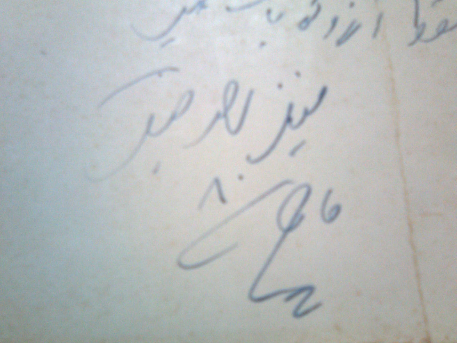 Post card signed by the late Faiz Ahmed Faiz